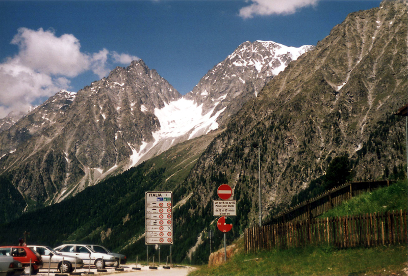 Summits Wildgall (left) & Hochgall (right), Rieserfernergroup, as seen from Staller Sattel pass, direction south, border between Austria and Italy